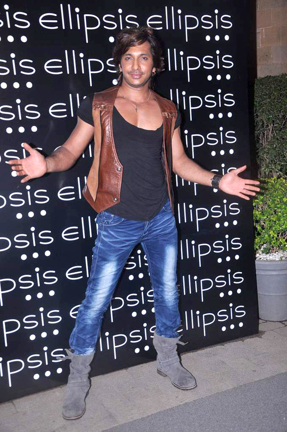 Terrence Lewis at Ellipsis launch hosted by Arjun Khanna